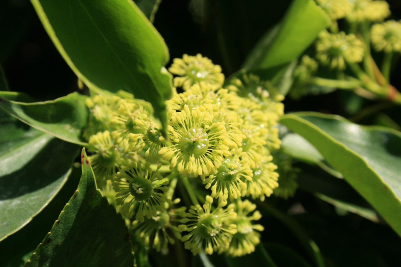 Trochodendron aralioides: Flowers. Botanical Garden, Århus, Denmark.